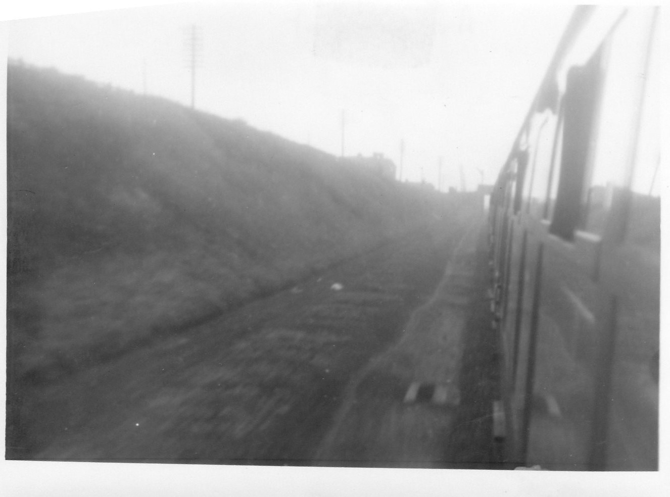 I took this photo from the southbound York-Bournemouth train (11:37 ex-Sheffield Victoria) in Feb 1965, facing South East. It shows the site of Duckmanton South Junction with Arkwright Town school just visible above top of the cutting.